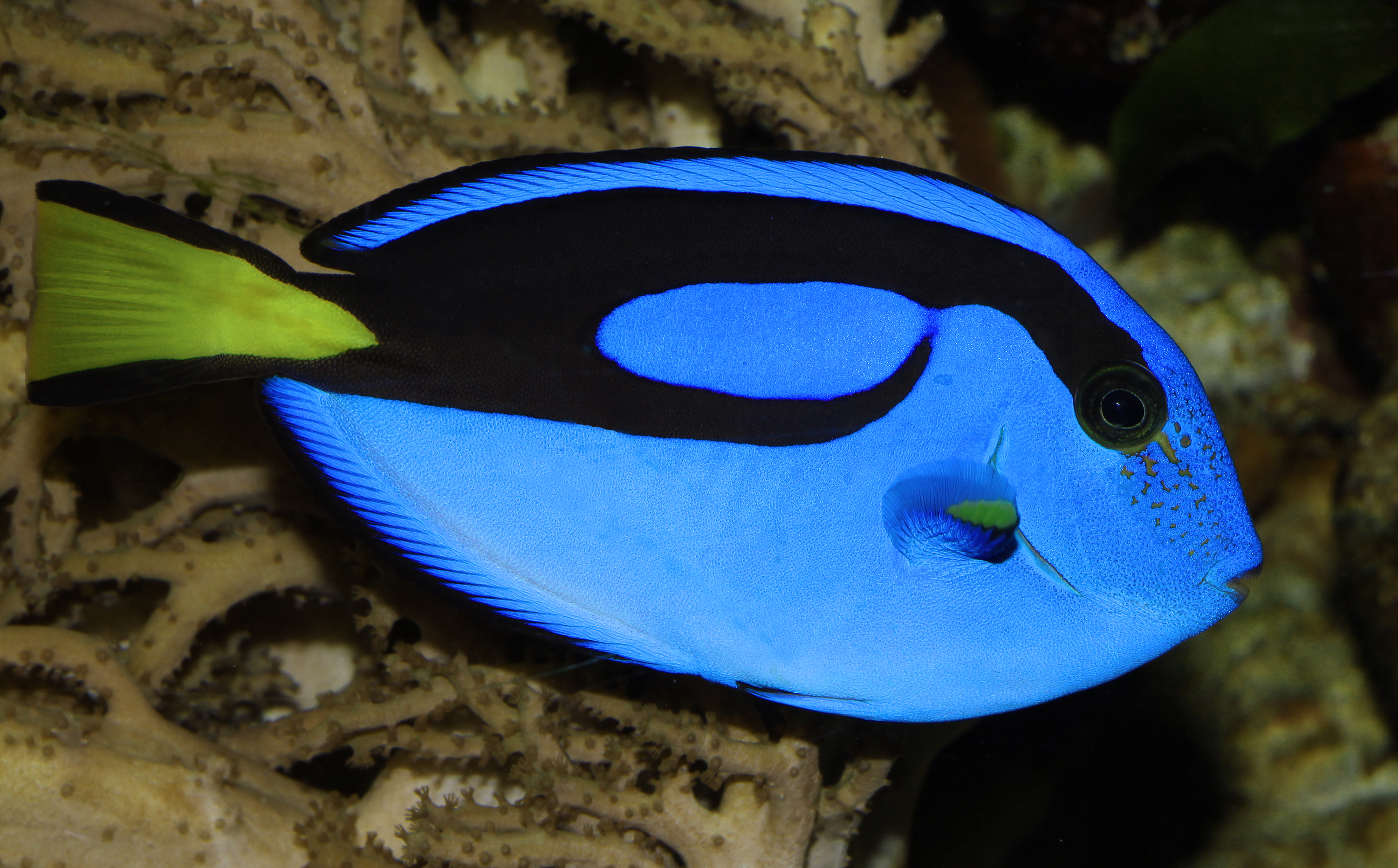 Regal Tang, Palette Surgeonfish, Blue Tang, Royal Blue Tang, Hippo Tang, Flagtail Surgeonfish or Blue Surgeonfish, Paracanthurus hepatus, Family: Acanthuridae, Location: Germany, Ulm, Zoological Garden